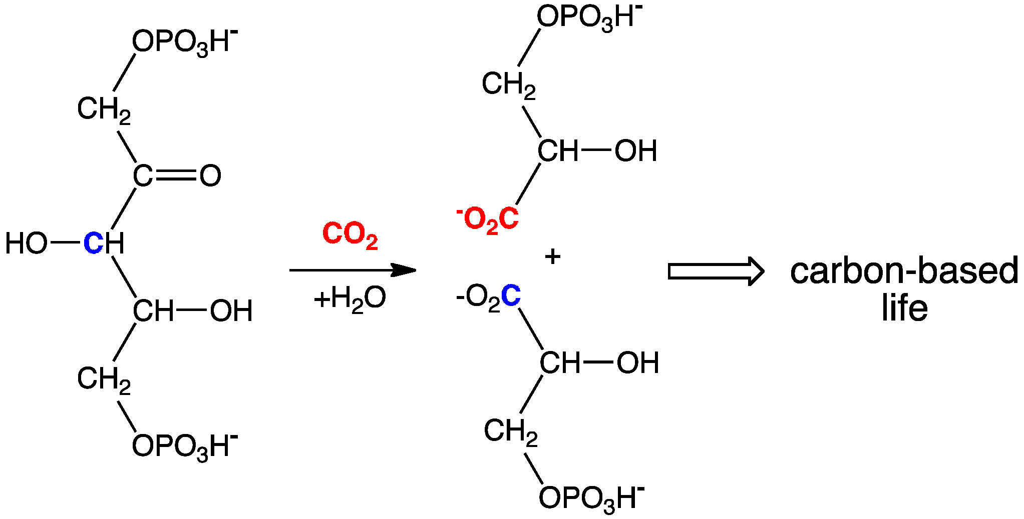 chemical reaction for CO2 fixation